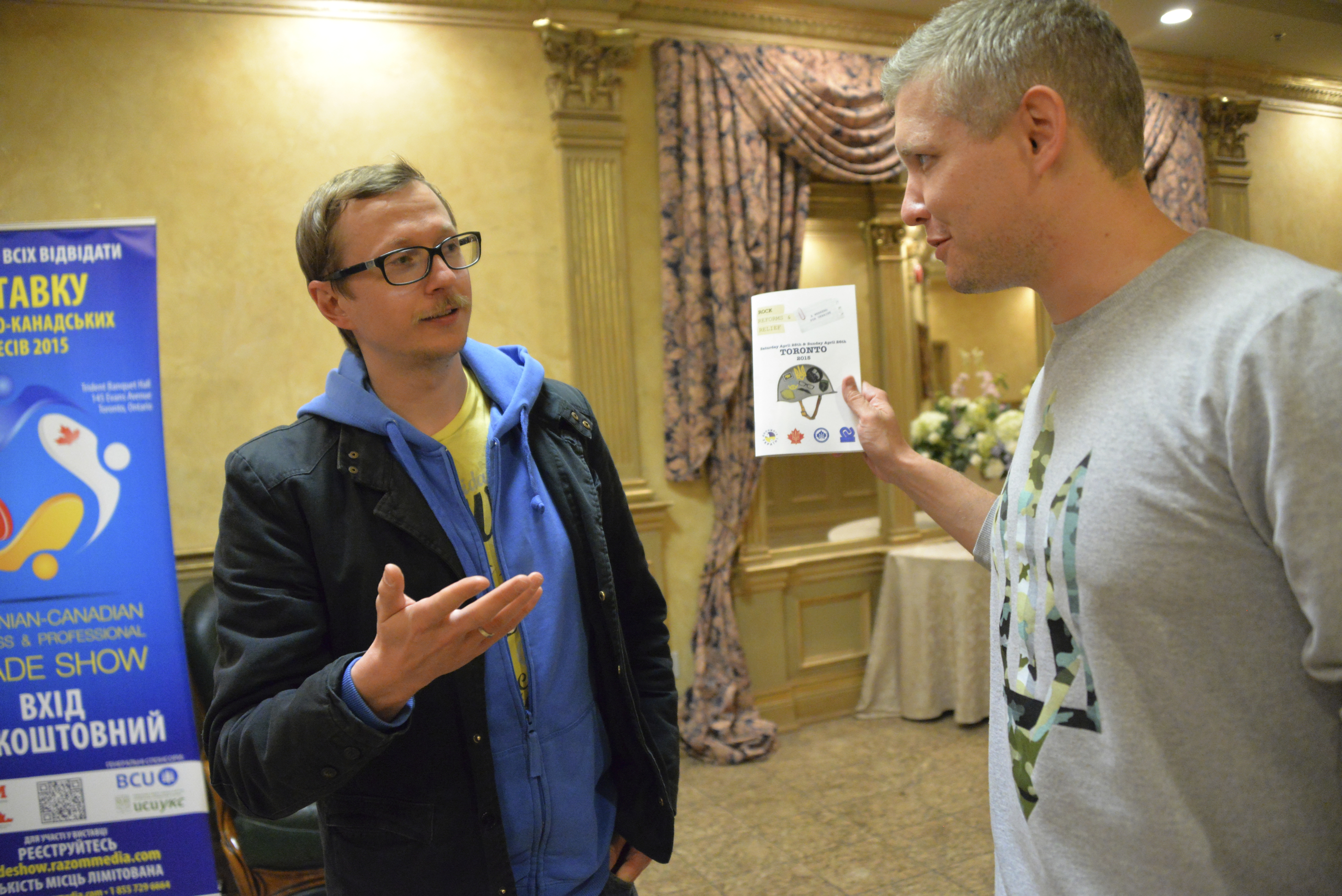 Roman Vintoniv (also known as Michael Shchur) with Danylo Spolsky at the Rock, Reforms, and Relief: A Weekend for Ukraine in Toronto, Canada, April 25-26, 2015.[1]